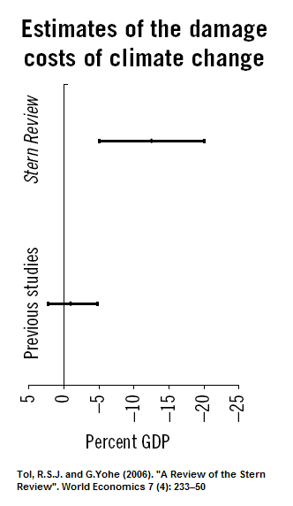 This image shows the information in a recent economics meta-review article that looked at the forecast of economic damage from global warming by independent researches (below) and by the individuals of the Stern Review. An alternative version exists here. Both images are adapted from a portion of-- Tol and Yohe (2006) "A Review of the Stern Review" World Economics 7(4): 233-50.